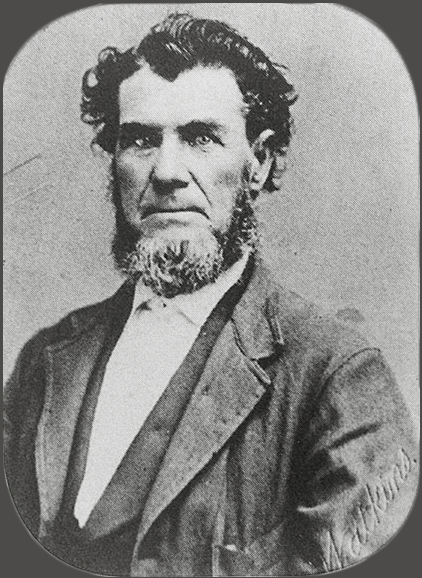 Benjamin Kelsey (1813 Kentucky – February 19, 1889) was an early American pioneer of California with his brothers Andy and Sam Kelsey. He was a founder, often with one or more of his brothers, of several settlements in California. Kelsey was married to Nancy Kelsey. Photographed by Carleton E. Watkins.